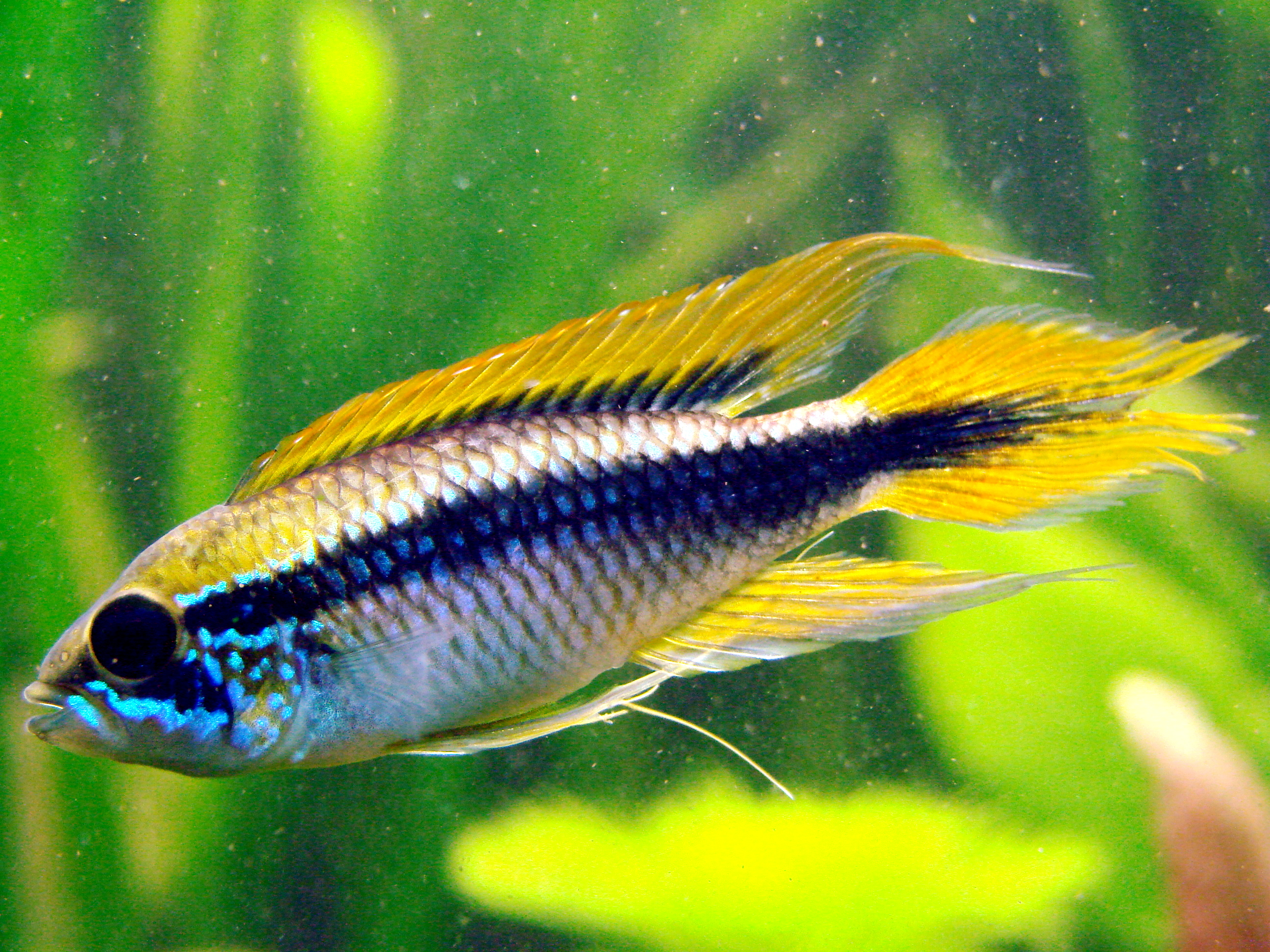 Picture taken in the zoo of Wrocław (Poland): Apistogramma agassizii (Steindachner, 1875)